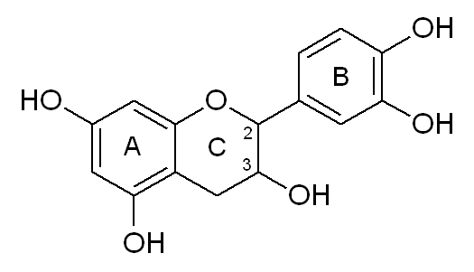 Catechin numbered